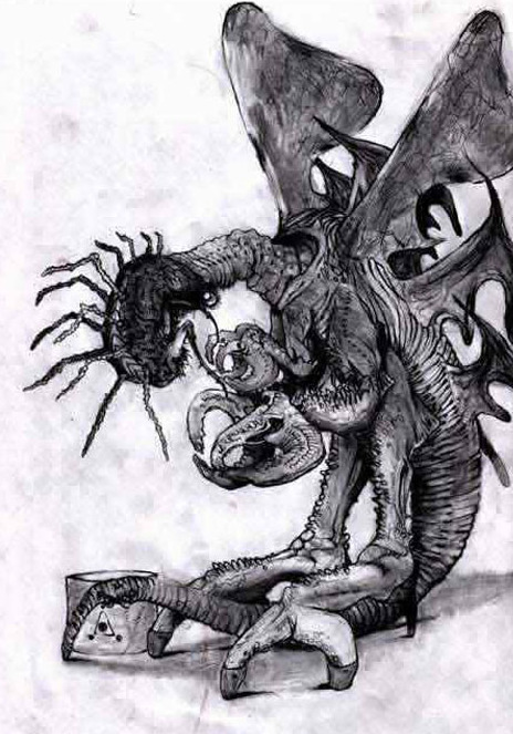 This is an interpretation of a monster in the Lovecraft Mythos, which to my surprise I am finding increasingly used on the internet.